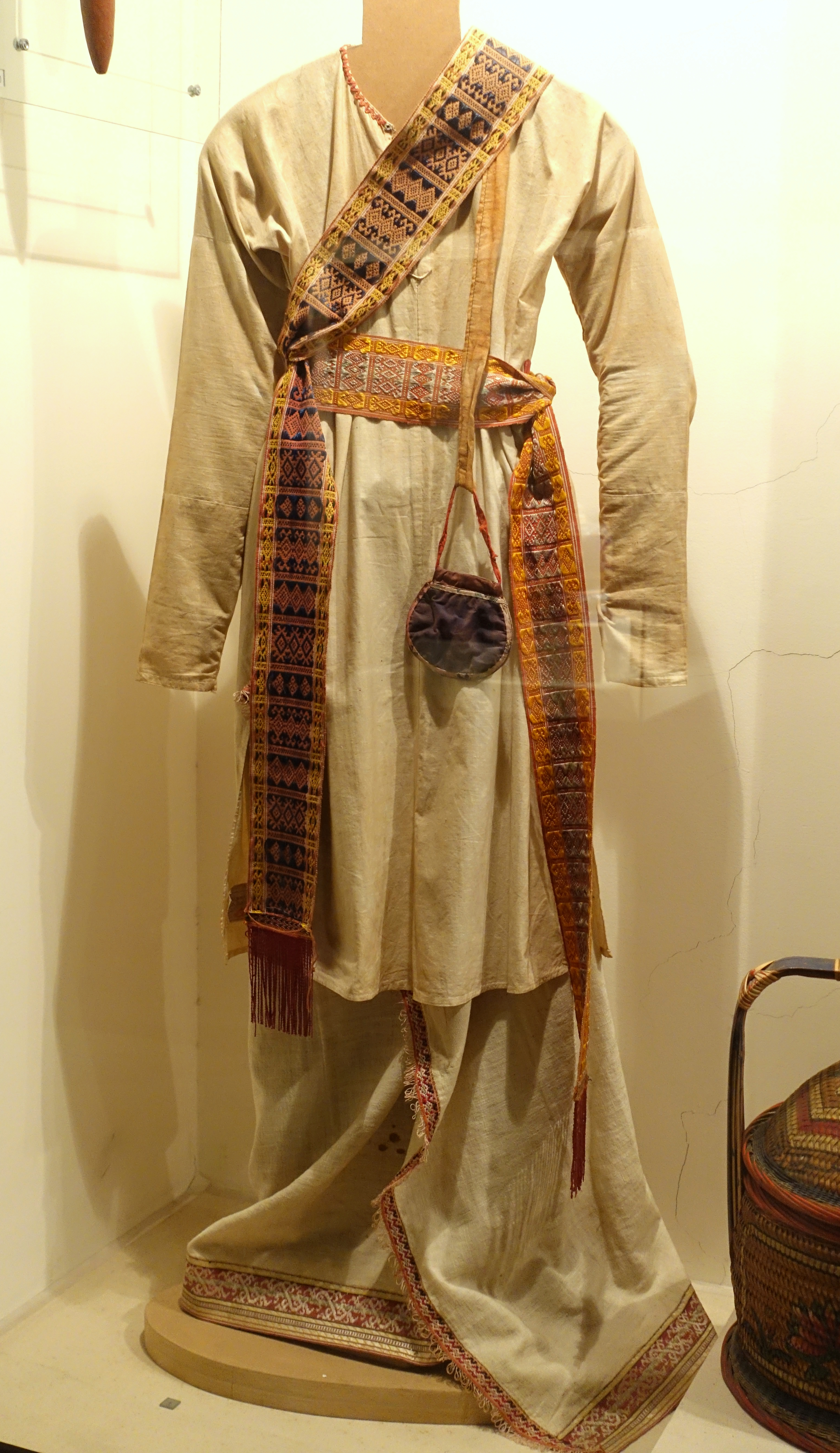 Exhibit in the Vietnam National Museum of Fine Arts - Hanoi, Vietnam. This artwork is old enough so that it is in the public domain.